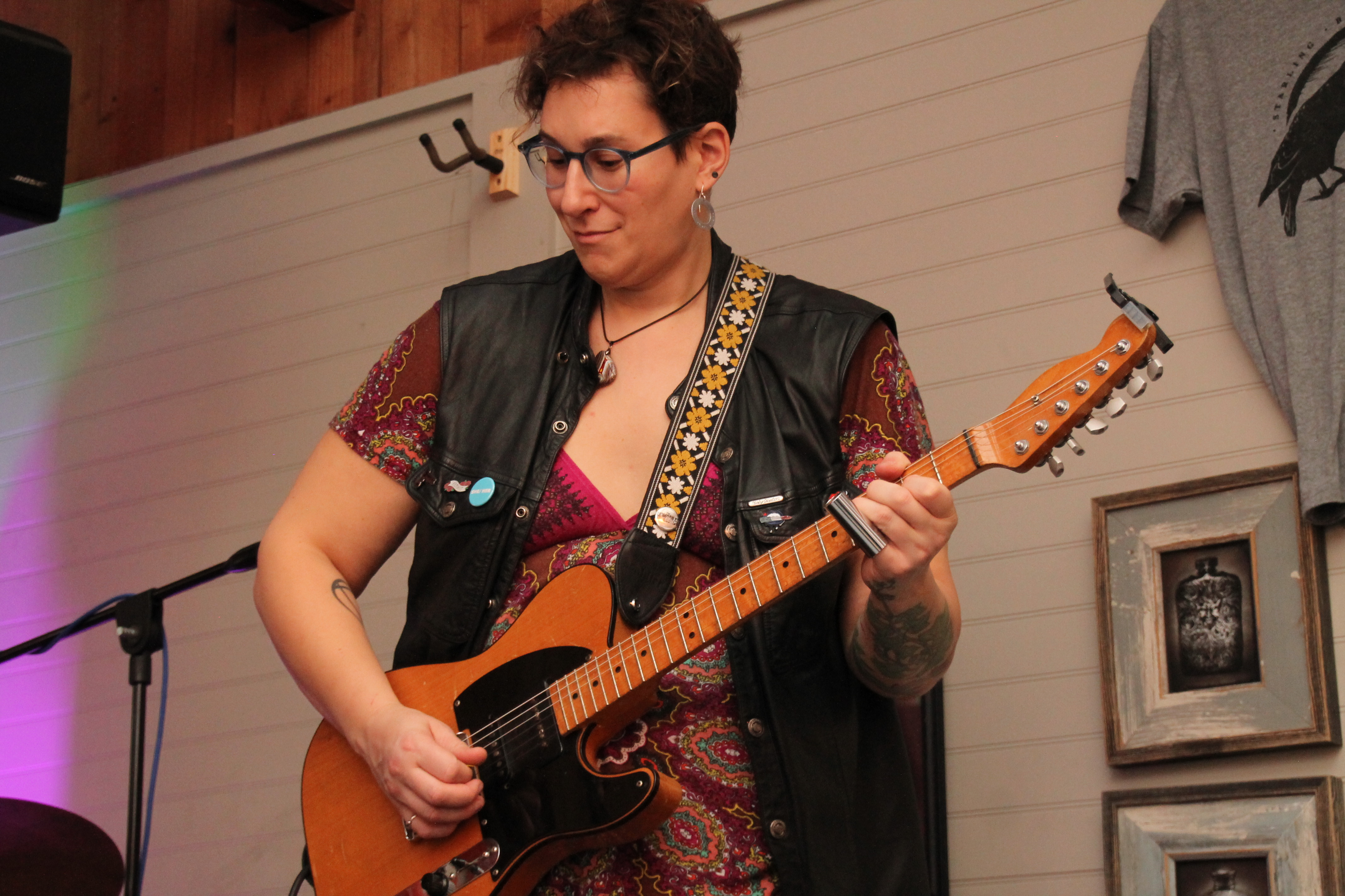 Mya Byrne live at The Starling in Sonoma, California